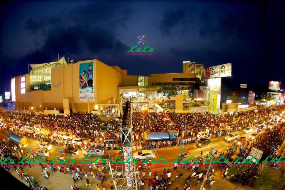 India's Biggest mall